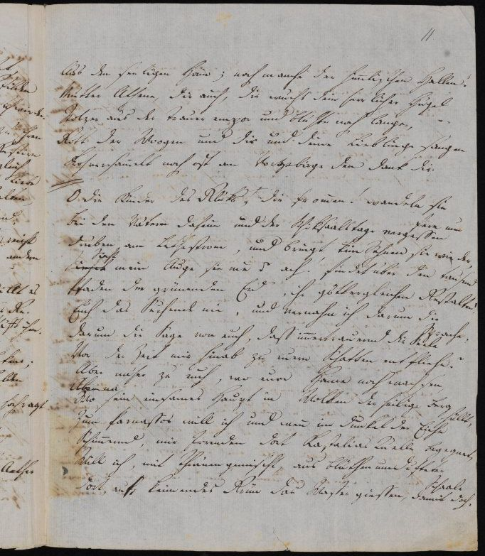 Manuscript of Friedrich Hölderlin: Der Archipelagus, page 11. From Homburg